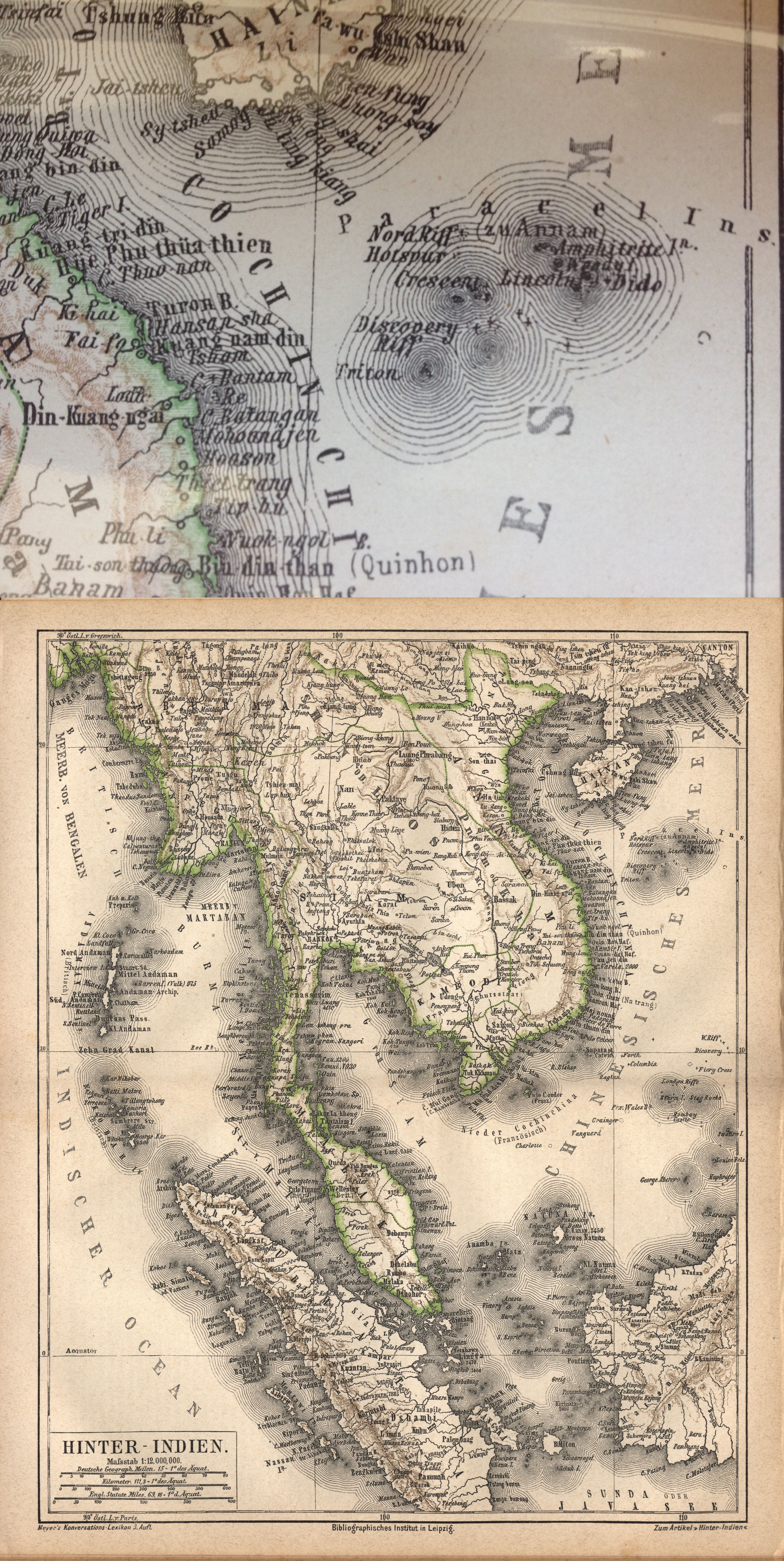 The Paracels as depicted on the 1880 German map of Hinter-Indien with designation as part of Annam.